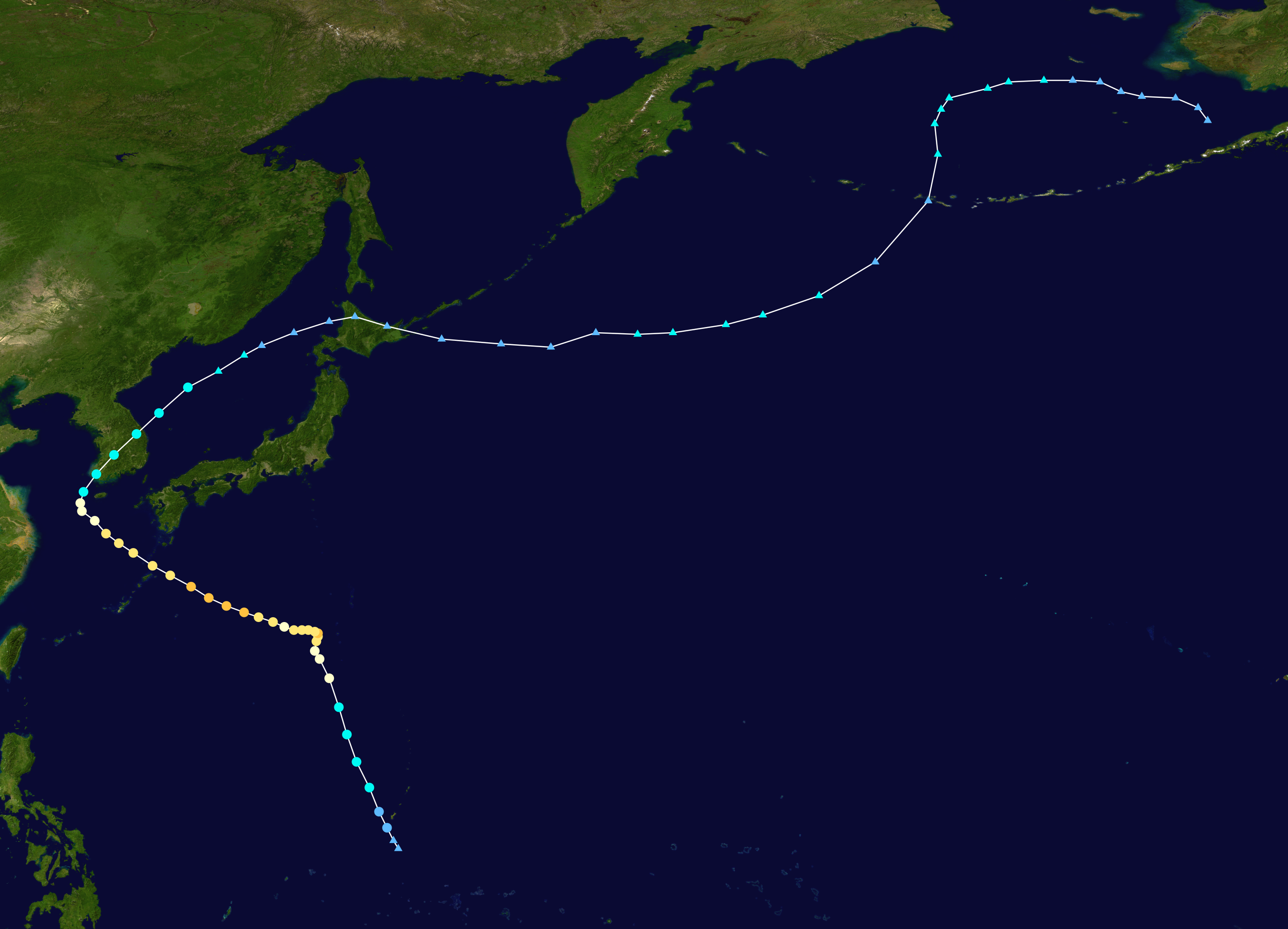 Track map of Typhoon Soulik of the 2018 Pacific typhoon season. The points show the location of the storm at 6-hour intervals. The colour represents the storm's maximum sustained wind speeds as classified in the Saffir–Simpson scale (see below), and the shape of the data points represent the nature of the storm, according to the legend below. Saffir–Simpson scale Tropical depression≤38 mph≤62 km/h Category 3111–129 mph178–208 km/h Tropical storm39–73 mph63–118 km/h Category 4130–156 mph209–251 km/h Category 174–95 mph119–153 km/h Category 5≥157 mph≥252 km/h Category 296–110 mph154–177 km/h Unknown Storm type Tropical cyclone Subtropical cyclone Extratropical cyclone / Remnant low / Tropical disturbance / Monsoon depression